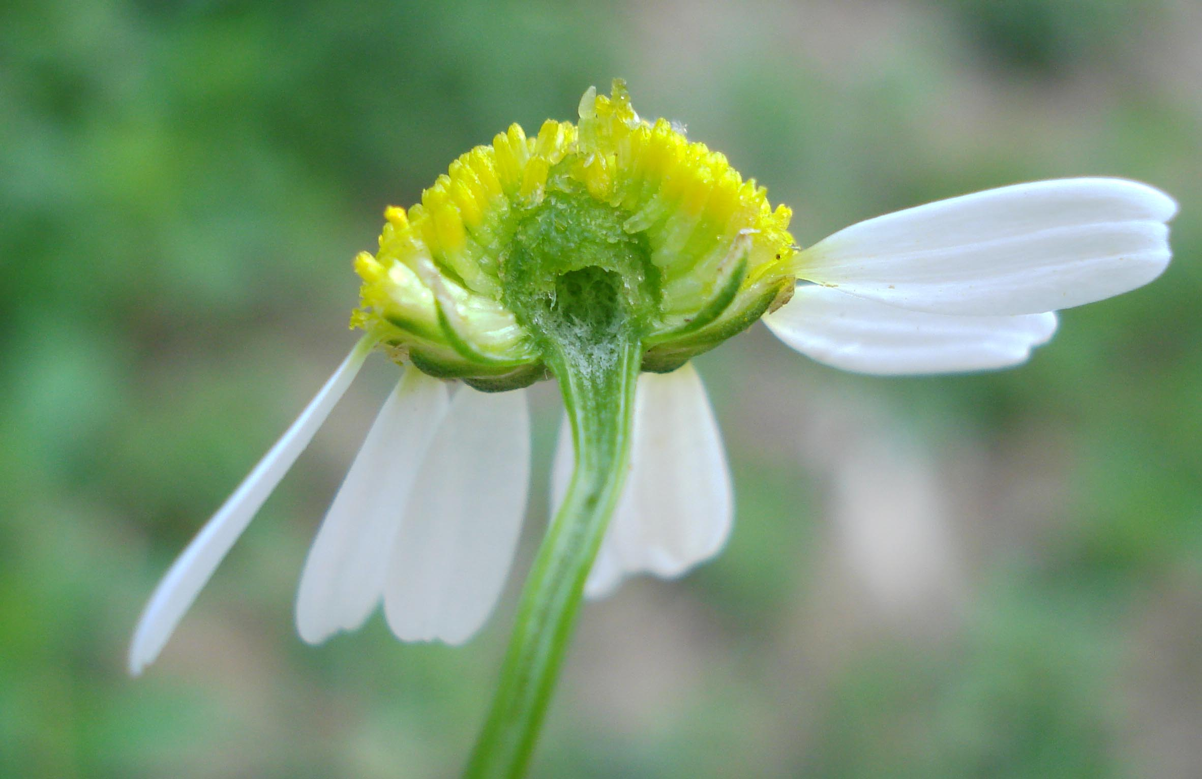 Chamomile, Matricaria recutita, Unterfranken, Germany.